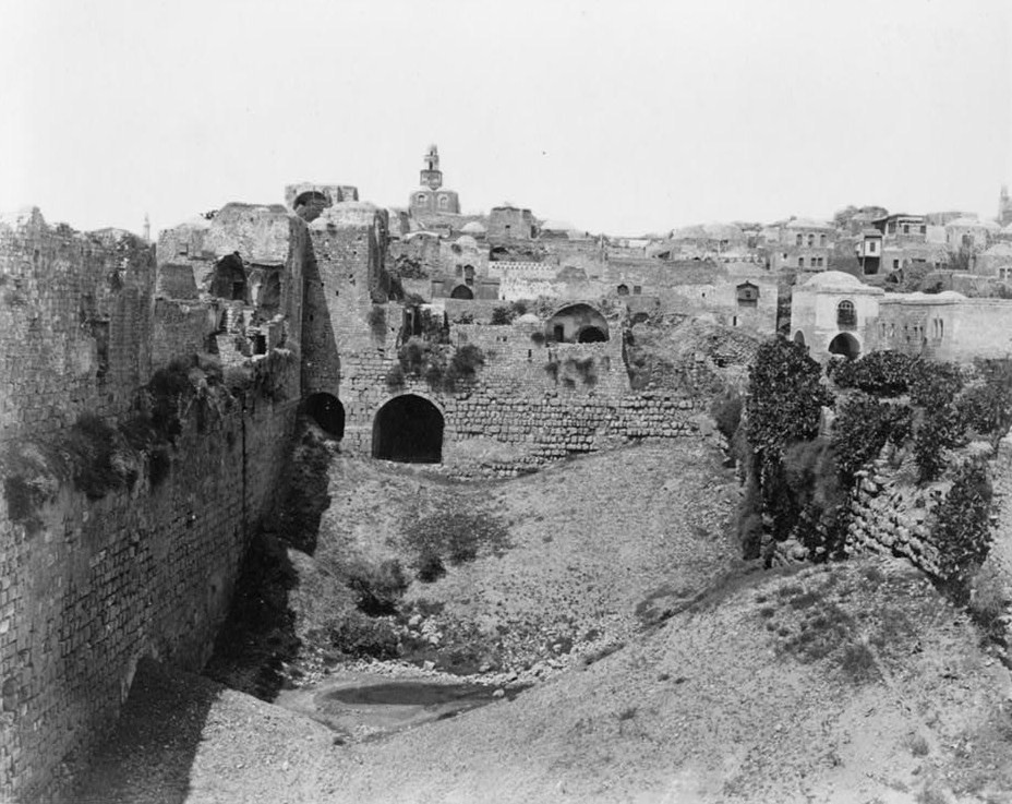 Birket Israel, Jerusalem (previously known as Pool of Bethesda)